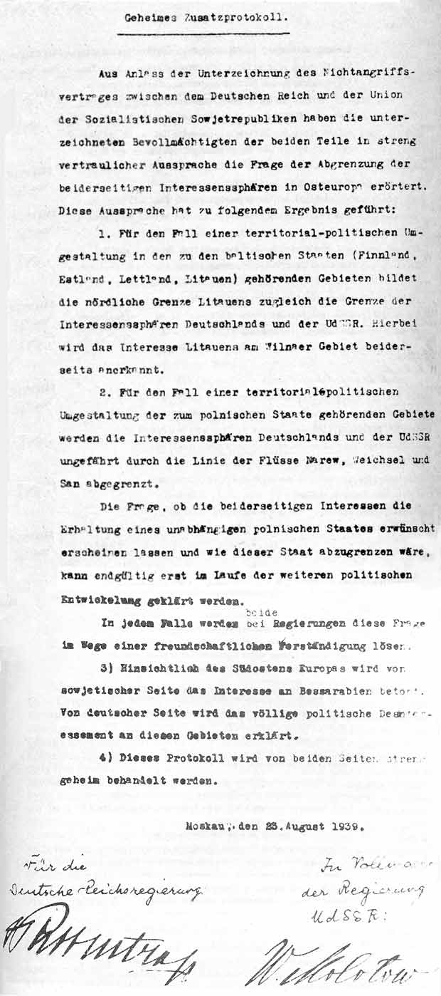 Secret Additional Protocol. Article 1). In the event of a territorial and political rearrangement in the areas belonging to the Baltic States (Finland, Estonia, Latvia, Lithuania), the northern boundary of Lithuania shall represent the boundary of the spheres of influence of Germany and U.S.S.R. In this connection the interest of Lithuania in the Vilna area is recognized by each party. Article 2). In the event of a territorial and political rearrangement of the areas belonging to the Polish state, the spheres of influence of Germany and the U.S.S.R. shall be bounded approximately by the line of the rivers Narev, Vistula and San. The question of whether the interests of both parties make desirable the maintenance of an independent Polish States and how such a state should be bounded can only be definitely determined in the course of further political developments. In any event both Governments will resolve this question by means of a friendly agreement. Article 3). With regard to Southeastern Europe attention is called by the Soviet side to its interest in Bessarabia. The German side declares its complete political disinteredness in these areas. Article 4). This protocol shall be treated by both parties as strictly secret. Moscow, August 23, 1939. For the Government of the German Reich v. Ribbentrop Plenipotentiary of the Government of the U.S.S.R. V. Molotov [1]